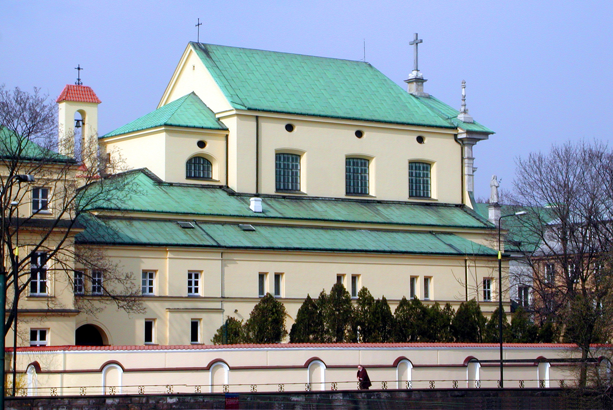 Capuchin church, Warsaw, seen from the W-Z Road